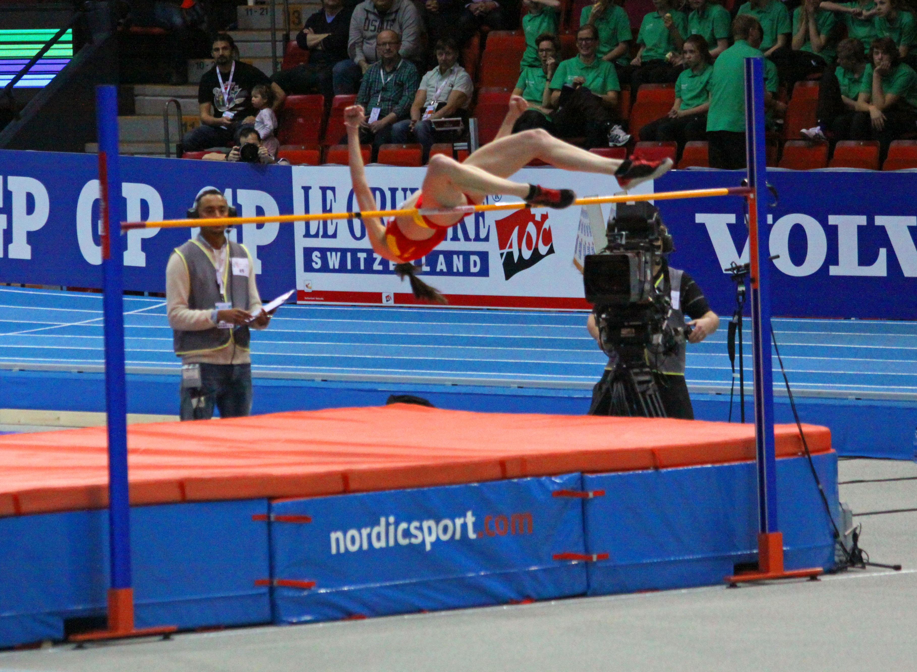 Ruth Beitia of Spain competing at the 2013 European Athletics Indoor Championships.